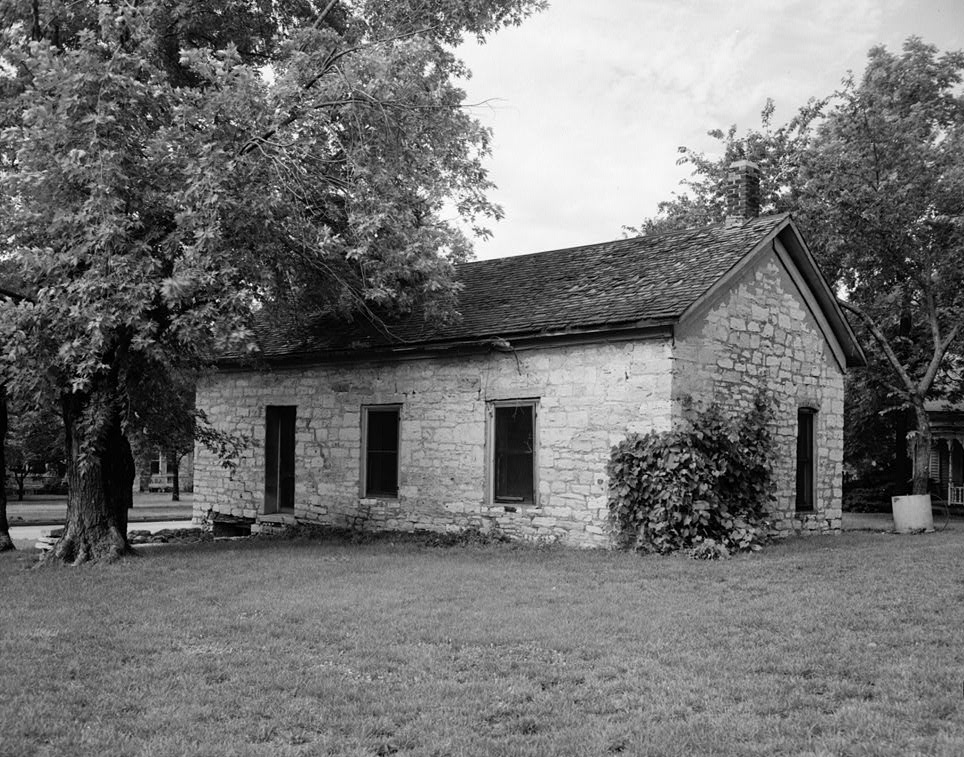 Northeastern side of the Last Chance Store, located at 500 W. Main St. in Council Grove, Morris County, Kansas, United States. Built in 1857, the building was added to the National Register of Historic Places on 21 June 1971. It is also a contributing property to the Council Grove Historic District, a National Historic Landmark District.